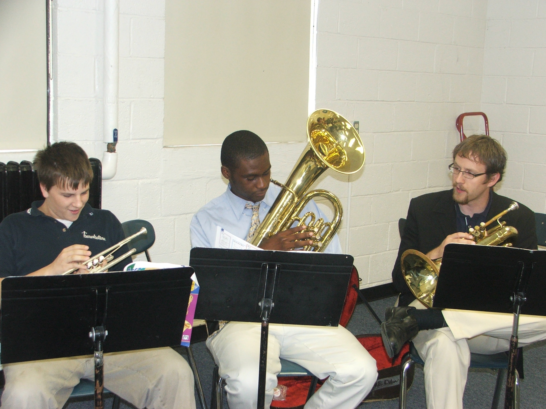 benny bnd